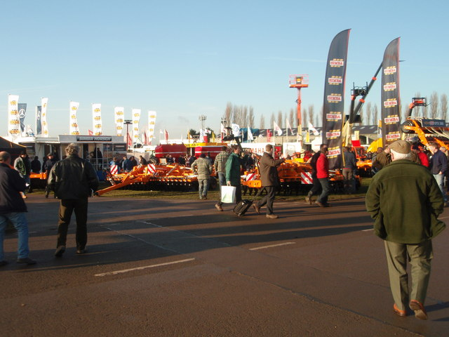 LAMMA Newark & Notts Showground The 2009 LAMMA show gets underway at the Newark & Nott's showground. A 2 day farm machinery show that gets bigger every year. Free entry, free car parking means huge attendance from the farming community. LAMMA is the Lincolnshire Agricultural Machinery Manufacturers Association. Originally set up to promote farm machinery made in Lincolnshire, so successful it outgrew its original remit and has now become the premier winter agricultural show.